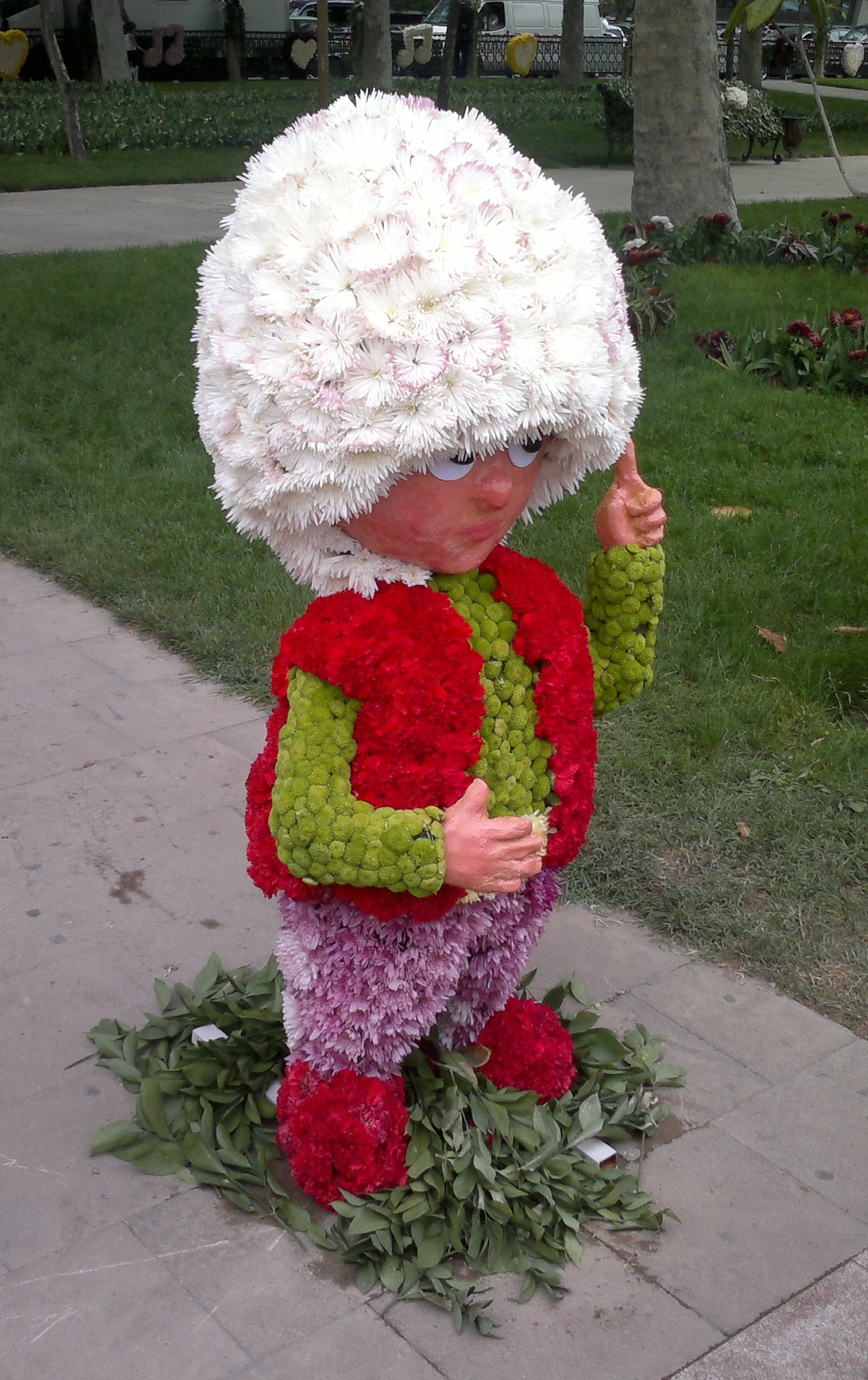 Hero of Azerbaijani fairy tales Jirtdan made from flowers. Baku